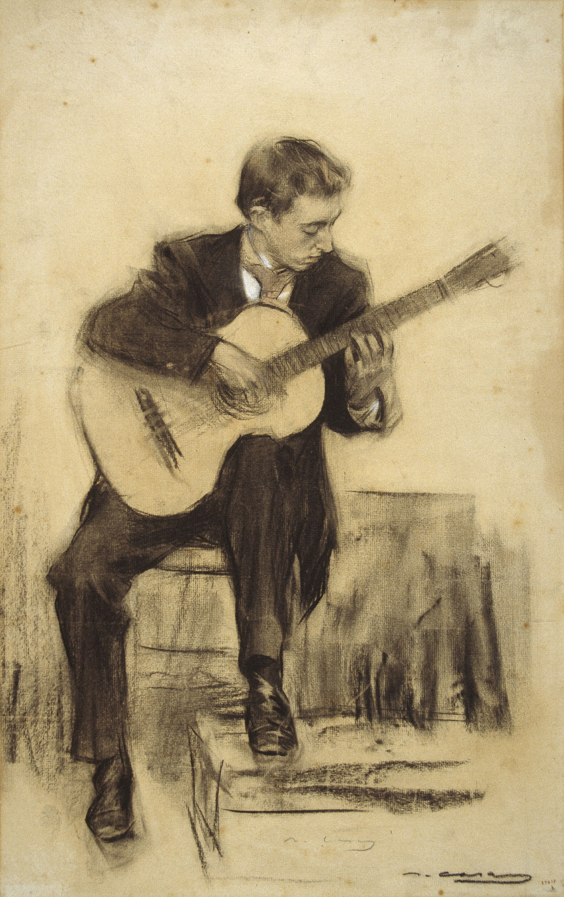 Portrait by Ramon Casas conserved at MNAC in Barcelona. Imagen 097